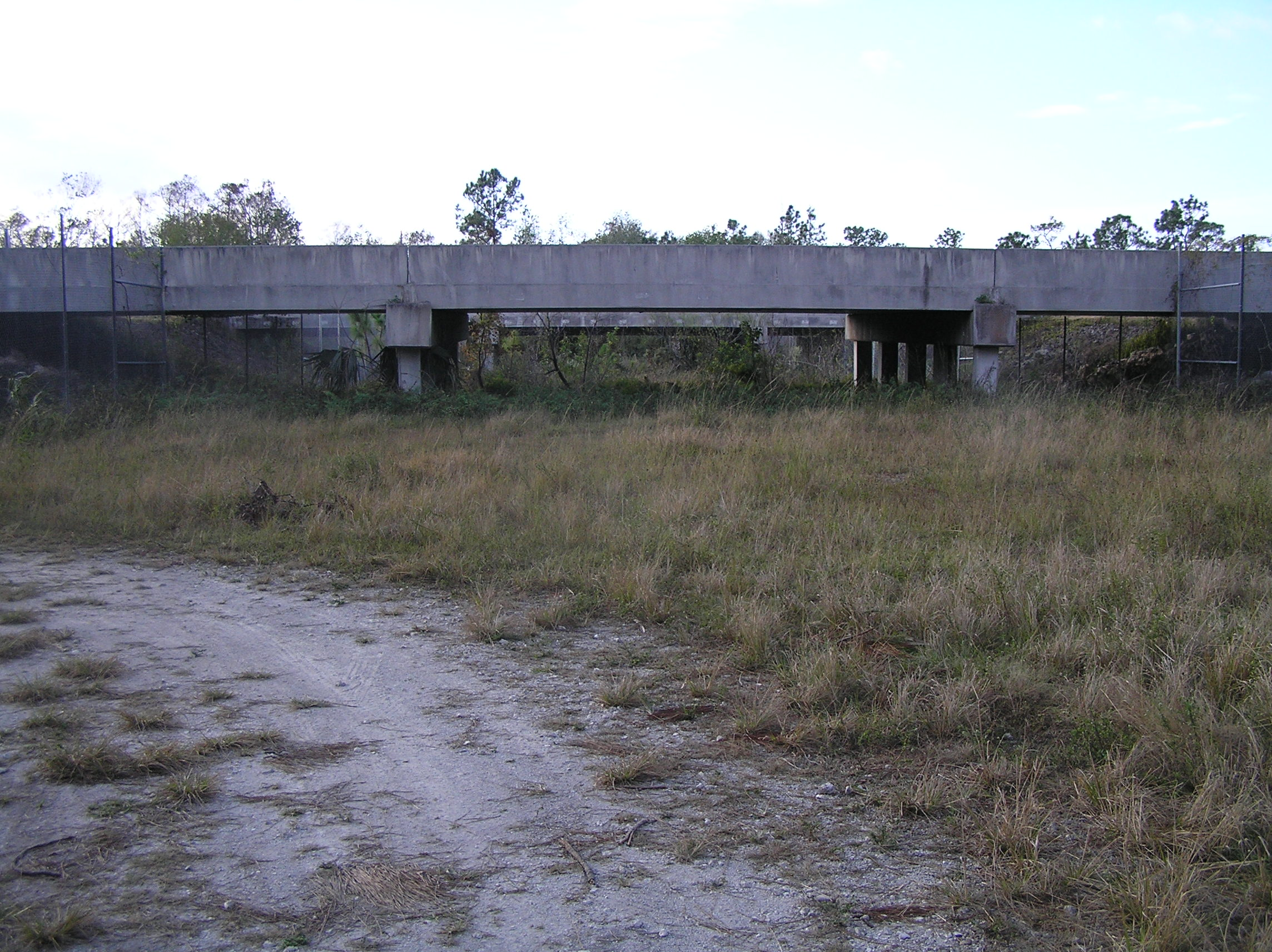 Underpass for Florida Panthers